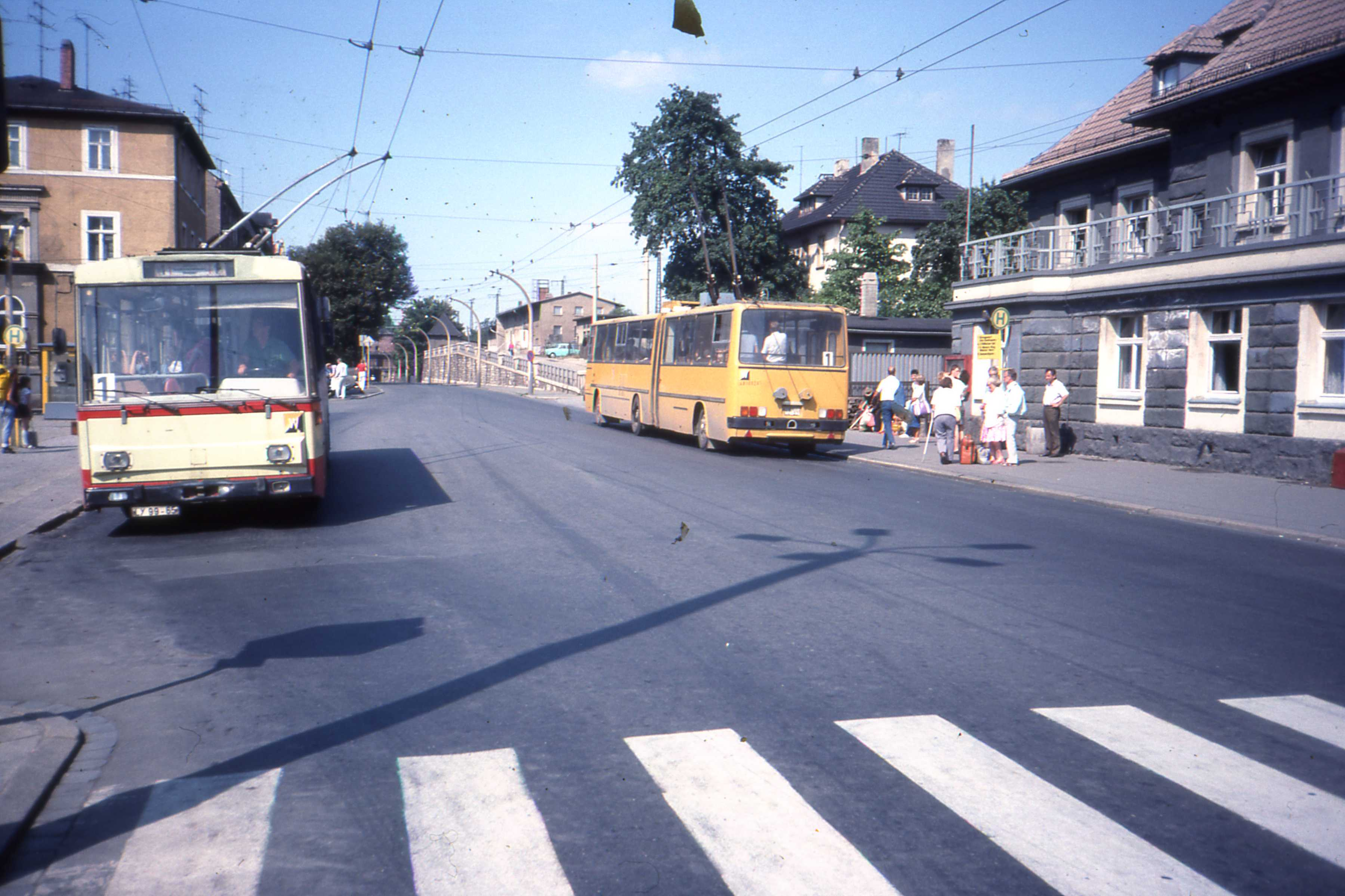 Škoda 14Tr and Ikarus 280T trolleybuses in Weimar, former East Germany